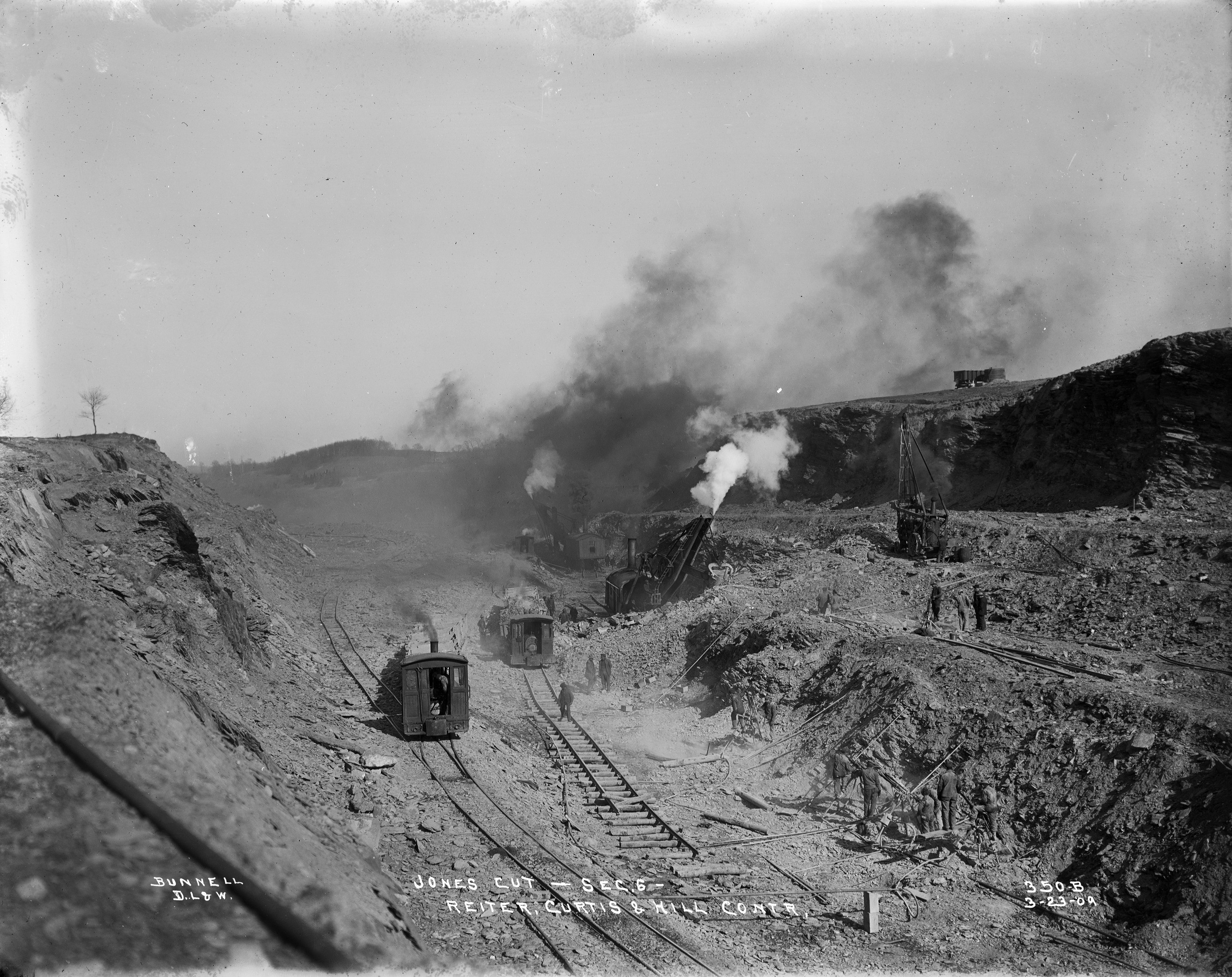 Photo shows early construction on the Lackawanna Cut-Off in Blairstown, New Jersey on Jones Cut - 23 March 1909. Other information This image and other related ones are part of the Lackawanna Railroad's collection of glass negatives. This photo was taken on 23 April 1910 by William B. Bunnell, who was the Lackawanna Railroad's staff photographer. (He was an employee of the railroad.) The glass plate negative was developed by Mr. Bunnell for use by the railroad in documenting the construction of the Lackawanna Cut-Off rail line in New Jersey. This photo was never the photographer's personal property. According to Mr. Perry Shoemaker, the last president of the Lackawanna Railroad, who died December 25, 1999, none of the Lackawanna's photos (which would include this one) were ever copyrighted. Further, the afore-mentioned collection of some 19,000 photographic negatives was donated to Syracuse University in 1951. The Lackawanna Railroad ceased as a corporate entity on October 17, 1960. About two years ago (2011), the so-called "Syracuse Collection" of Lackawanna Railroad photographs was transferred from Syracuse University to Steamtown National Historic Site in Scranton, Pennsylvania, where it now resides.